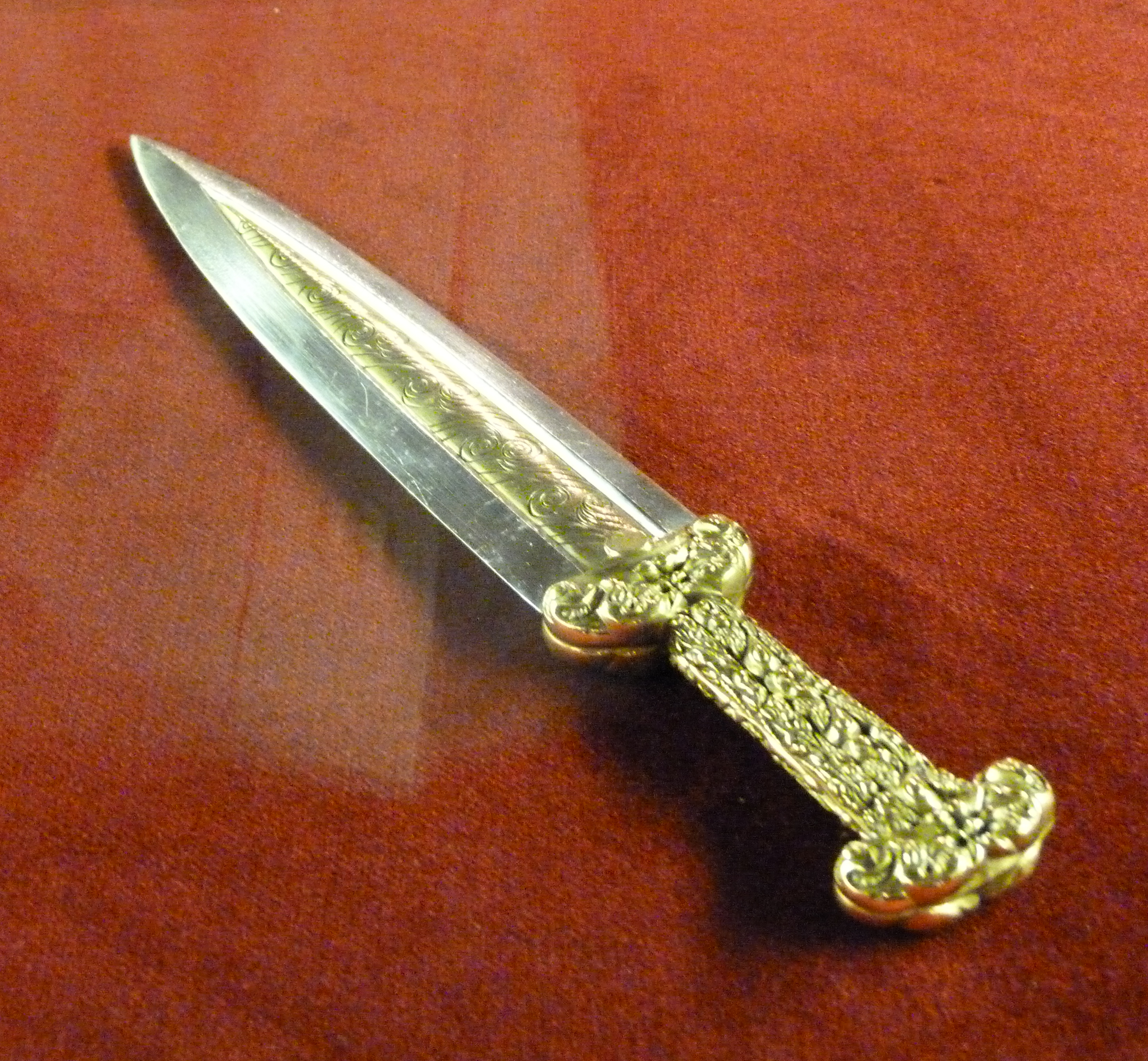 Empire of the Sun. Scytians ! Great, honorable men ! Remember the beginning of your way ! Live on the 13th of November, 2012, Budapest, VAM Design Center. Published under Creative Commons in the Metapolisz DVD line. All of the photos and vids in the Metapolisz DVD line are under Creative Commons and can be used even for commercial - for profit - purposes. Recommended citation: Derzsi Elekes Andor: Metapolisz DVD line Sources: Сенсационной называют свою находку археологи, обнаружившие в Карагандинской области «золотого человека» Sun emperor File:Sun_emperor.JPG Még mindig tagadnunk kell? Szkíta „aranyembert” találtak a kazah régészek A szkíta Napherceg Szkíta kincsekből nyílik egyedülálló kiállítás Budapesten: Badinyi-Jós Ferenc :a tatárlakai korong szövegének megfejtése: „Oltalmazónk! Minden titok dicső Nagyasszonya! Vigyázó két szemed óvjon, Napatyánk fényében!” Szathmáry megfejtése: „Egyetlen, magasztos Teljességünk leáldozóban, de Fény atyánk arca felemelkedik, ismét felragyog, s betölti dicsőségét!”